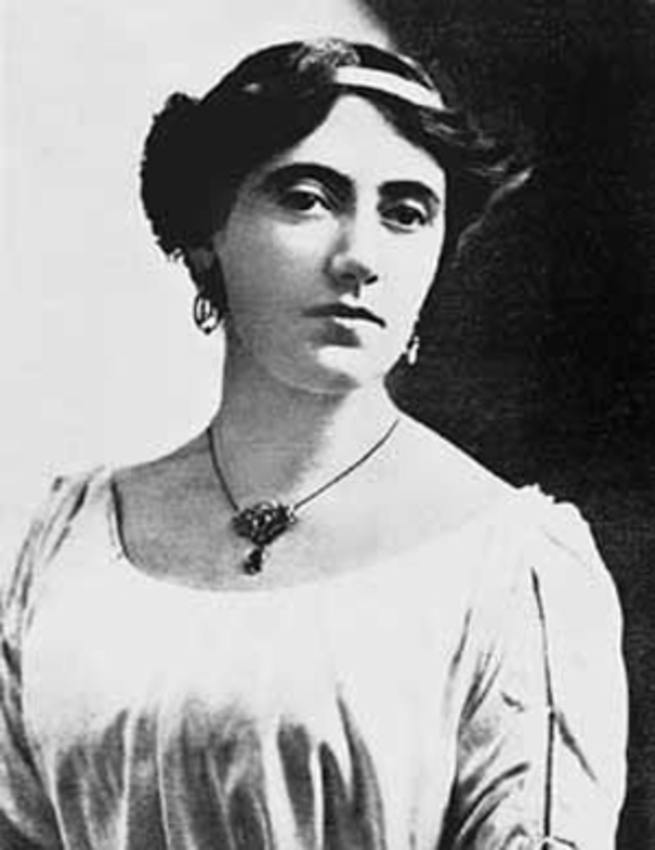 Solomiya Krushelnytska as Livia in Livia Quintilla by Zygmunt Noskowski. Nice, France